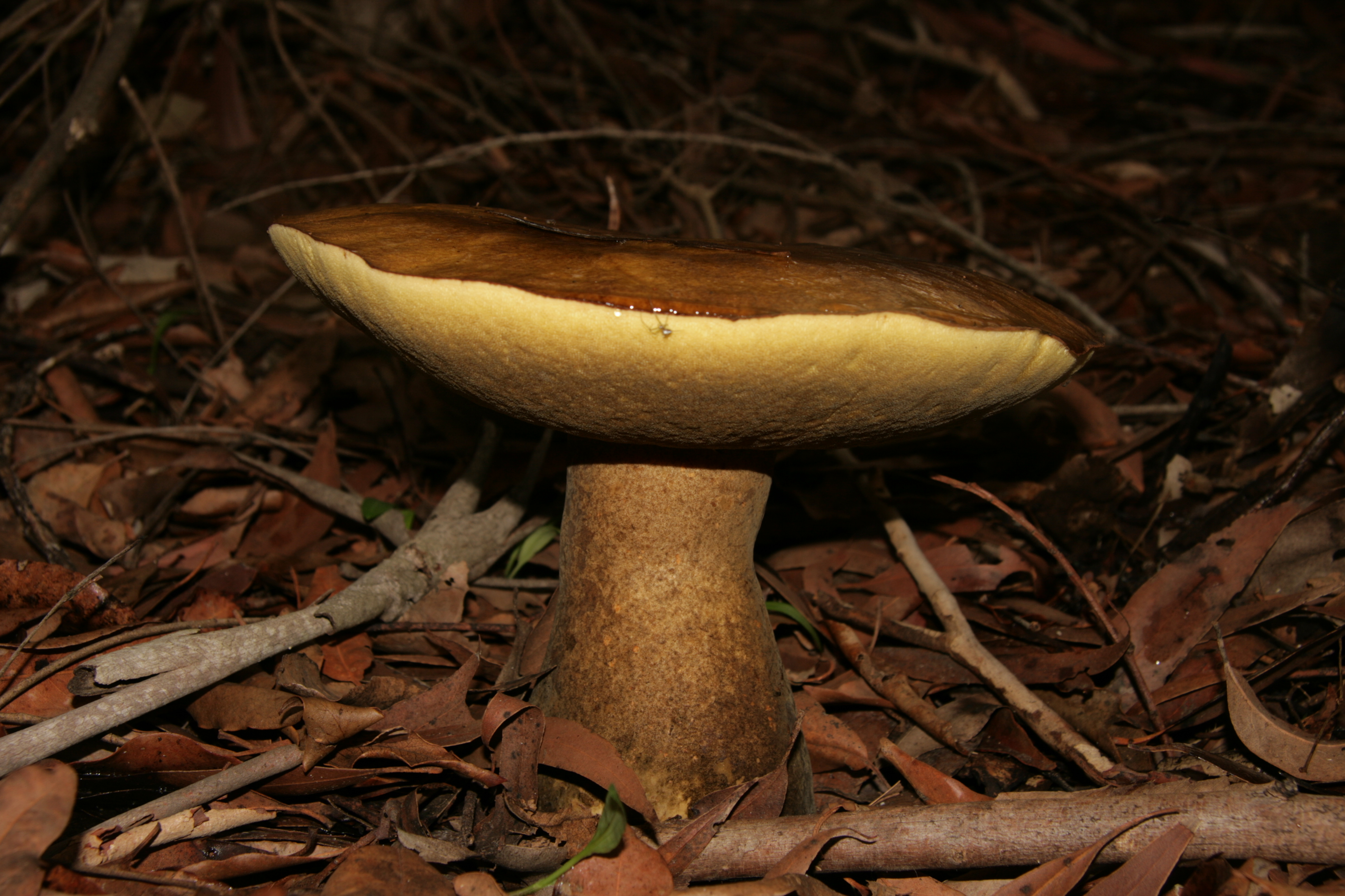 Phlebopus marginatus - Bardwell Valley Parklands, Sydney